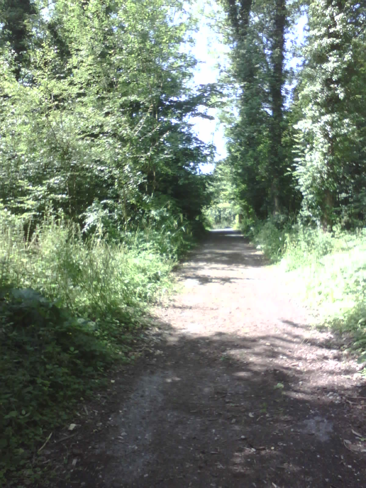 The main track in Tin Wood with various paths leading off it.